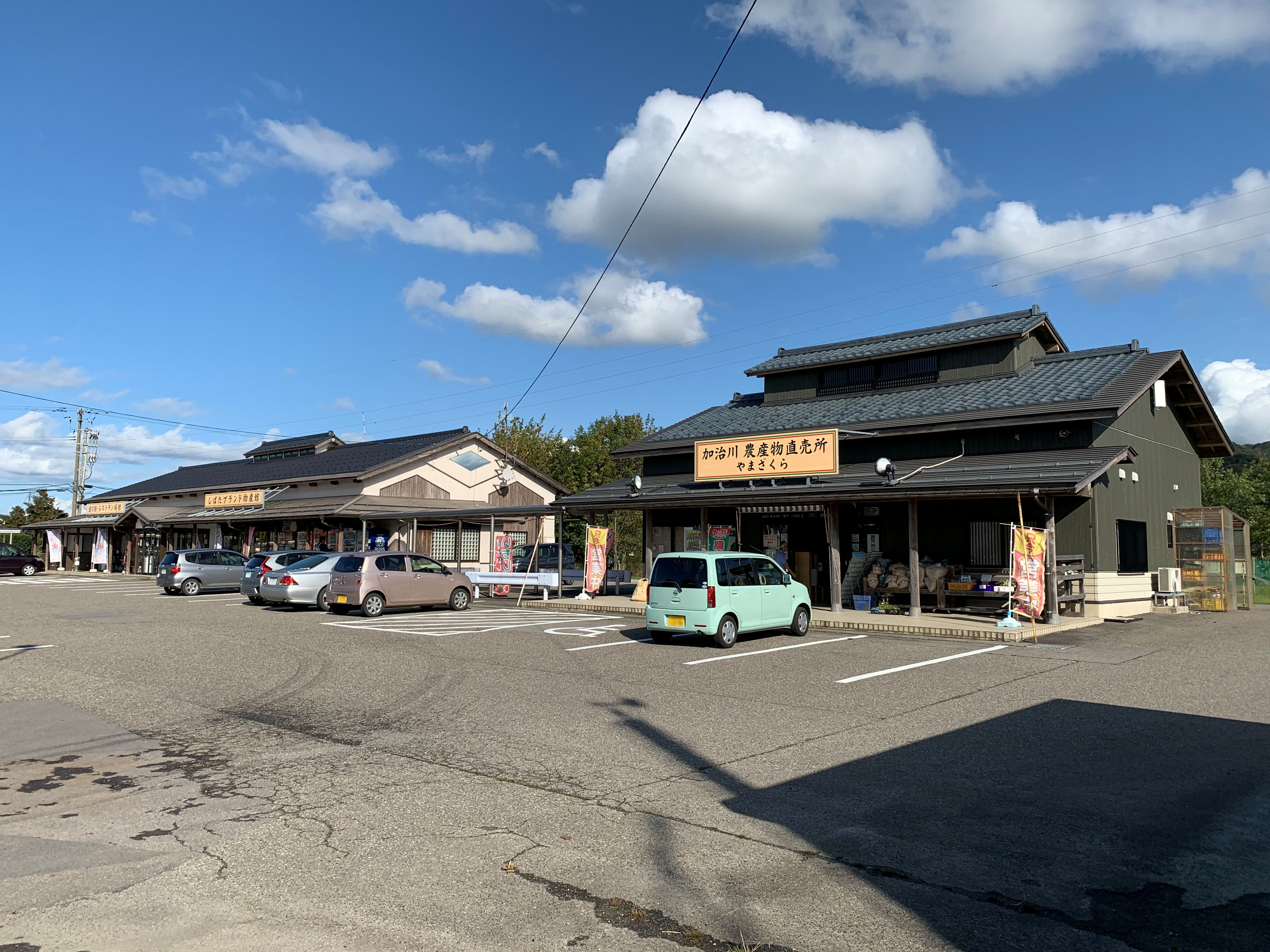 Kajikawa, Michi no Eki (Roadside Station), Niigata, Japan. Took photo in October 2019.